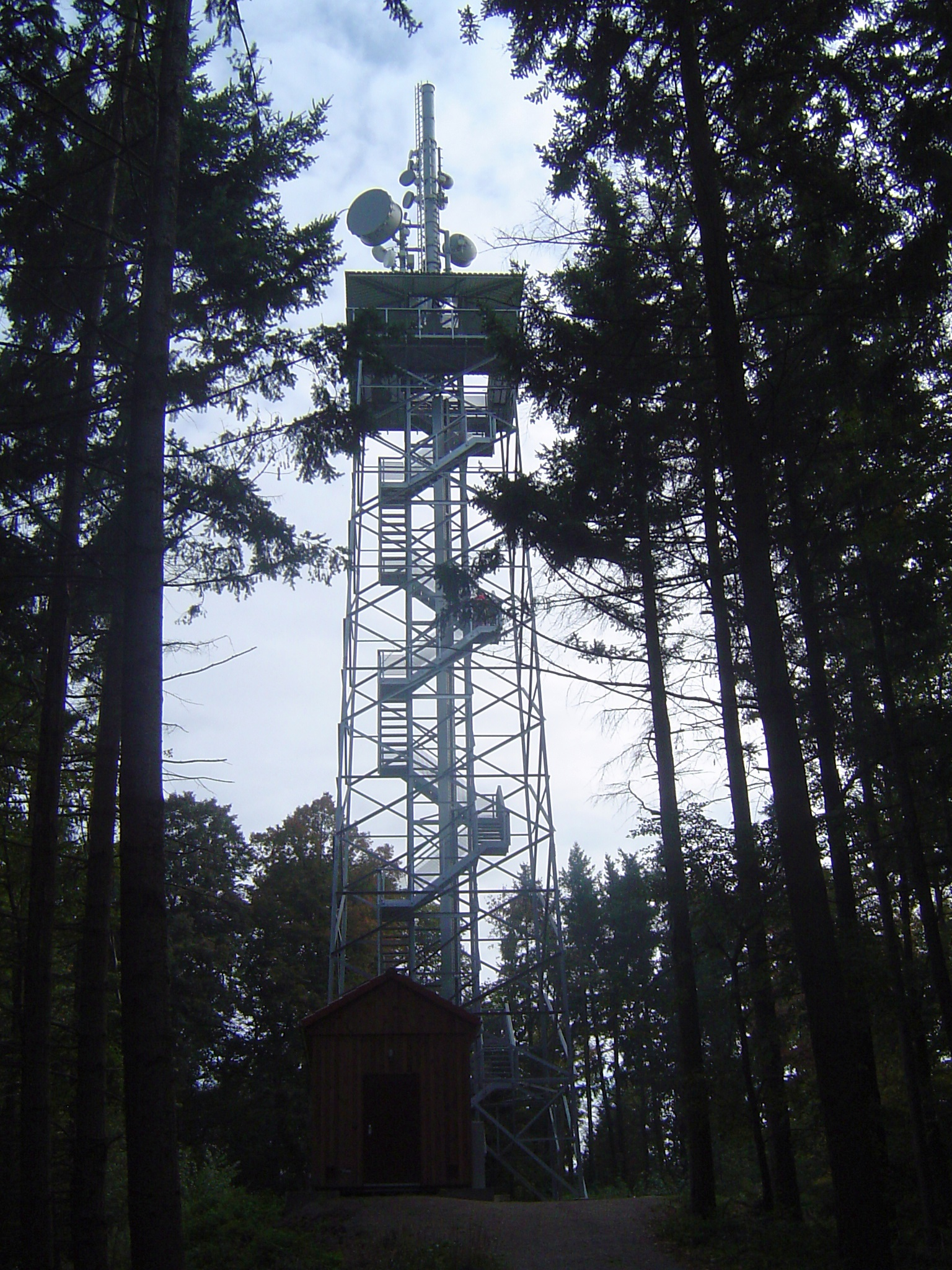 Eichelspitz tower on the top of the Eichelspitze mountain (521 m) - Kaiserstuhl (Germany)